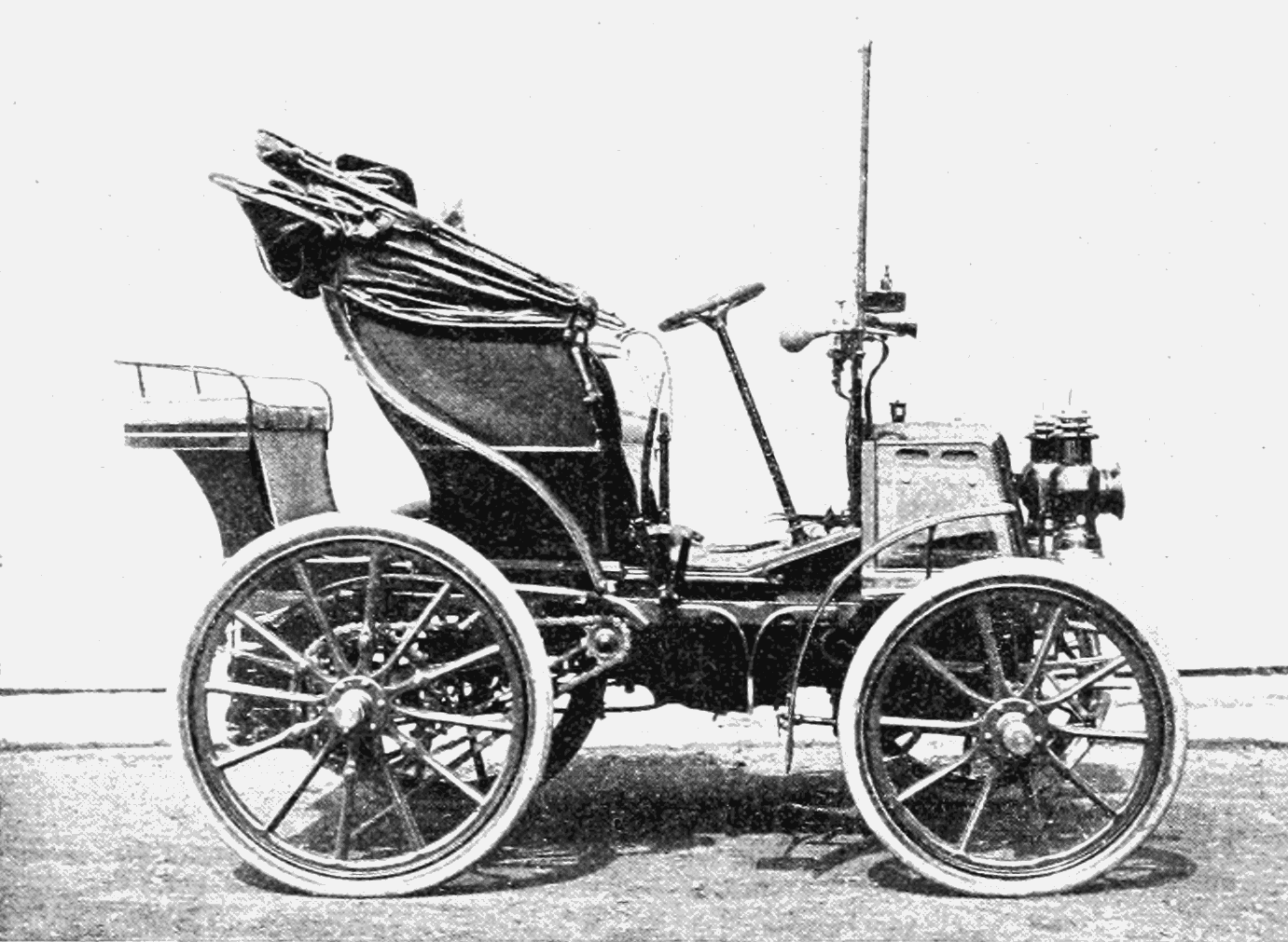 Panhard and Levassor vehicle